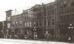 The original street face of Englert Theatre at 217 Washington Street in downtown Iowa City, Iowa, appears in an image taken near the time of its original historic opening September 26, 1912. An original hand-painted sign hangs outside the third-floor level, and the original dark hotel-type canopy tops the entrance.